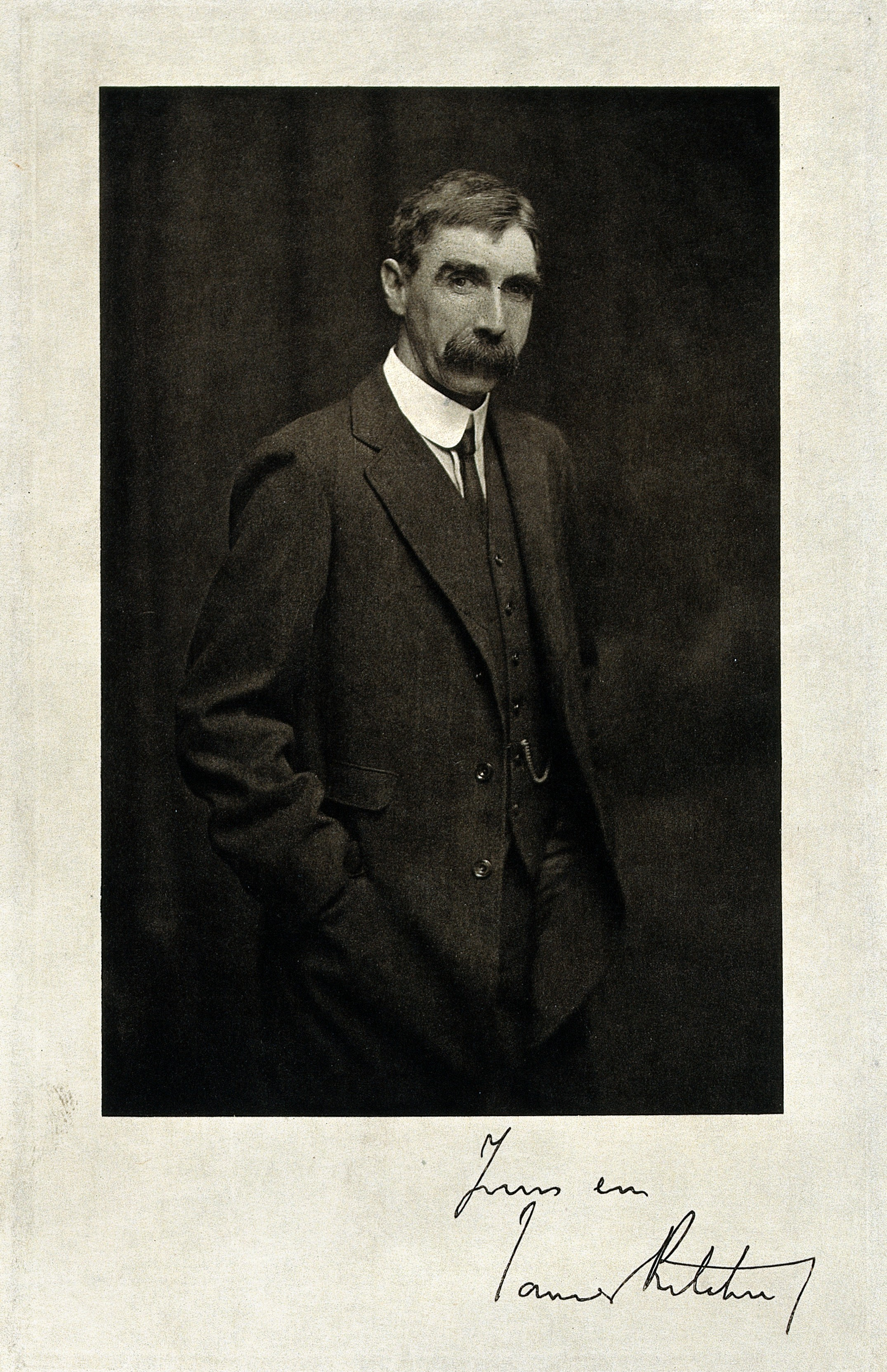 James Ritchie. Photogravure. Identification as James Ritchie (naturalist) based on likeness to this painting of him. Iconographic Collections Keywords: portrait prints